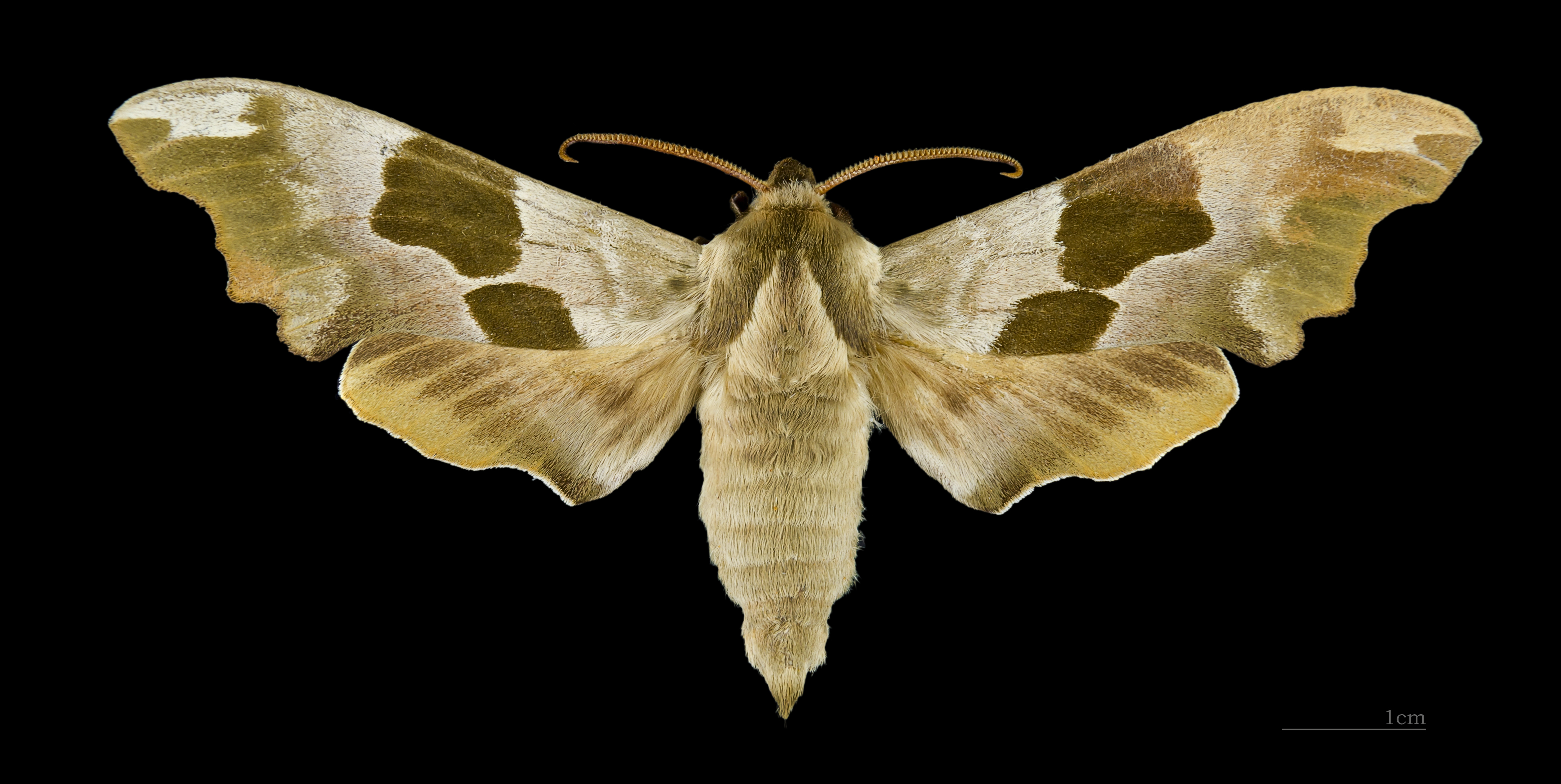 Lime Hawk-moth - Dorsal side